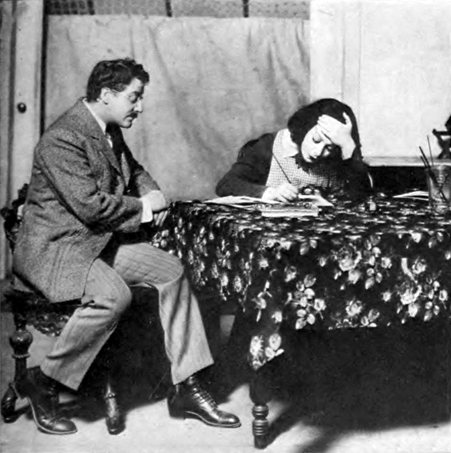 Photograph of Harry Mestayer (Gregers Werle) and Alla Nazimova (Hedvig) in the original Broadway production of The Wild Duck Caption reads as follows:Act II. Hedvig—"There is so much that is strange about the wild duck."